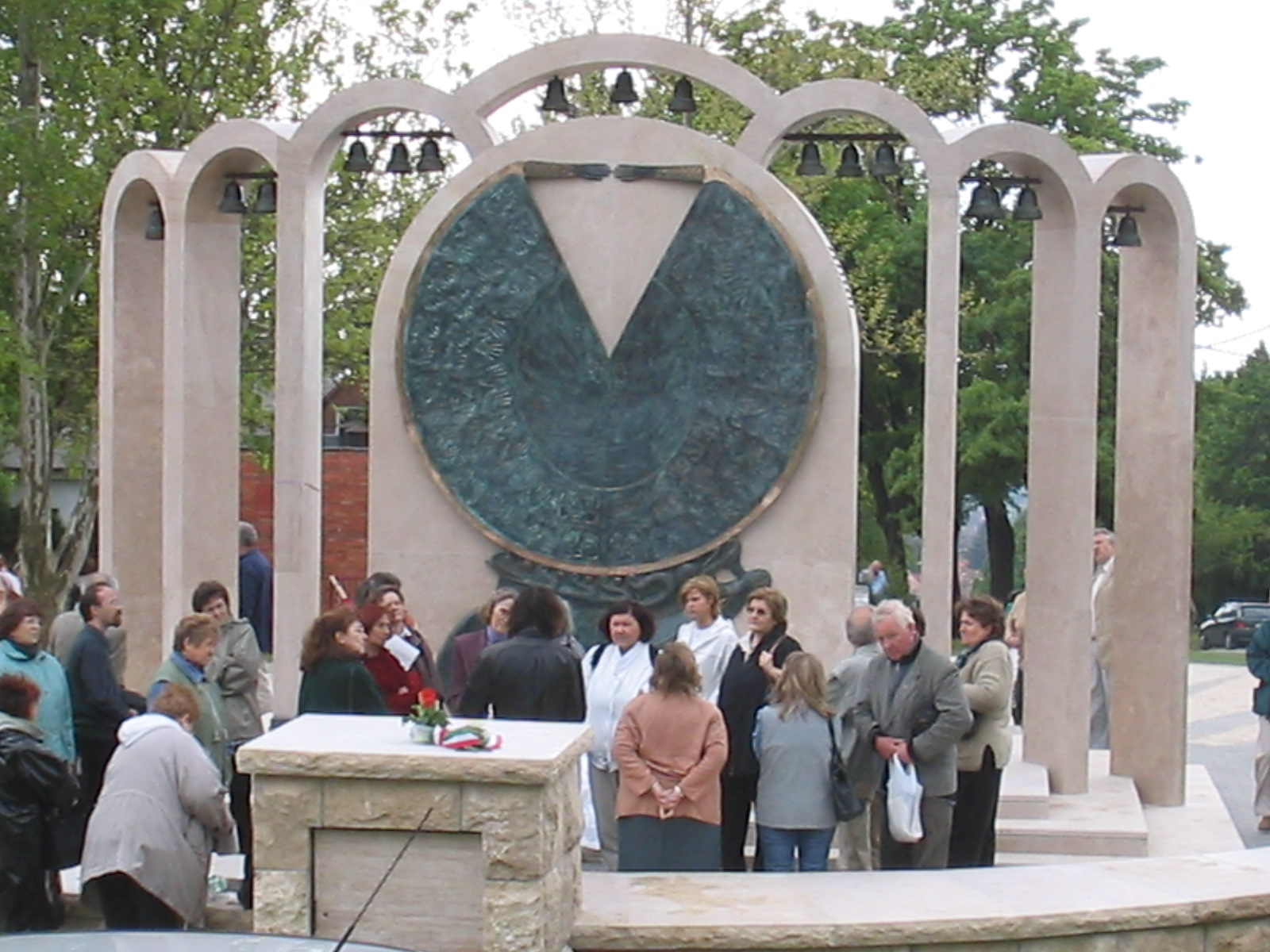 Sculpture of Himnusz, the national anthem of Hungary, back side (Budakeszi, Hungary) Sculptor:Mária V. Majzik (2006)